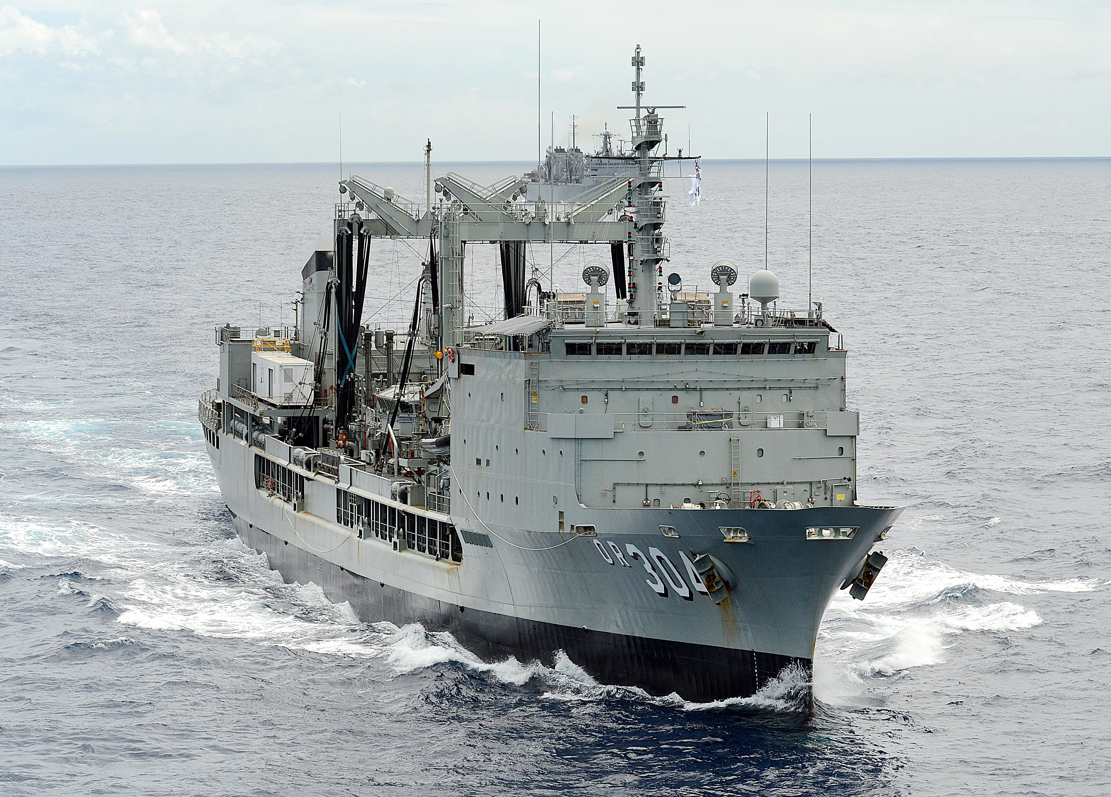 Royal Australian Navy ship HMAS Success (OR 304) steams in close formation as one of 42 ships and submarines representing 15 international partner nations during Rim of the Pacific (RIMPAC) Exercise 2014.